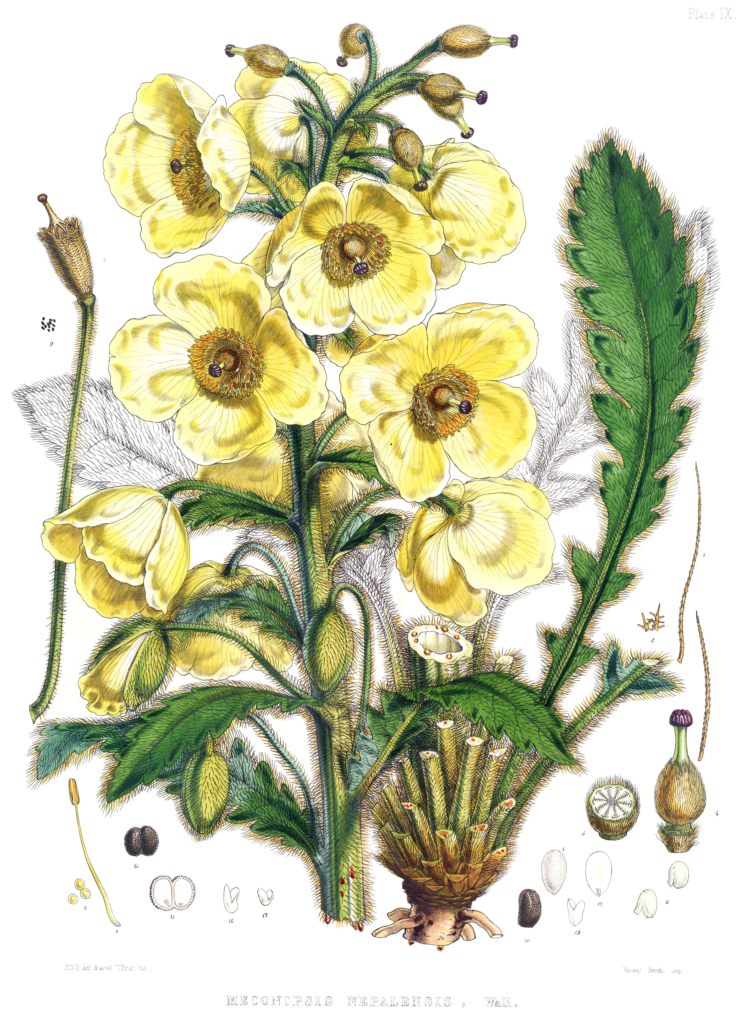 Meconopsis nepalensis syn. Meconopsis napaulensis. Original caption: "Plate IX. Fig. 1. Hairs of the stem. 2. Stamen. 3. Pollen. 4. Ovary. 5. Transverse section of ovary. 6. Ovules :— all magnified. 7. Ripe capsule, natural size; and 8, hairs of its surface, magnified. 9. Seeds, natural size. 10. Seed. 11. The same with the testa removed. 12. Longitudinal section of albumen. 13. Embryo. 14. Seeds that have grown together. 15. Longitudinal section of the same. 16, 17. Deformed embryos from the same :—all magnified.